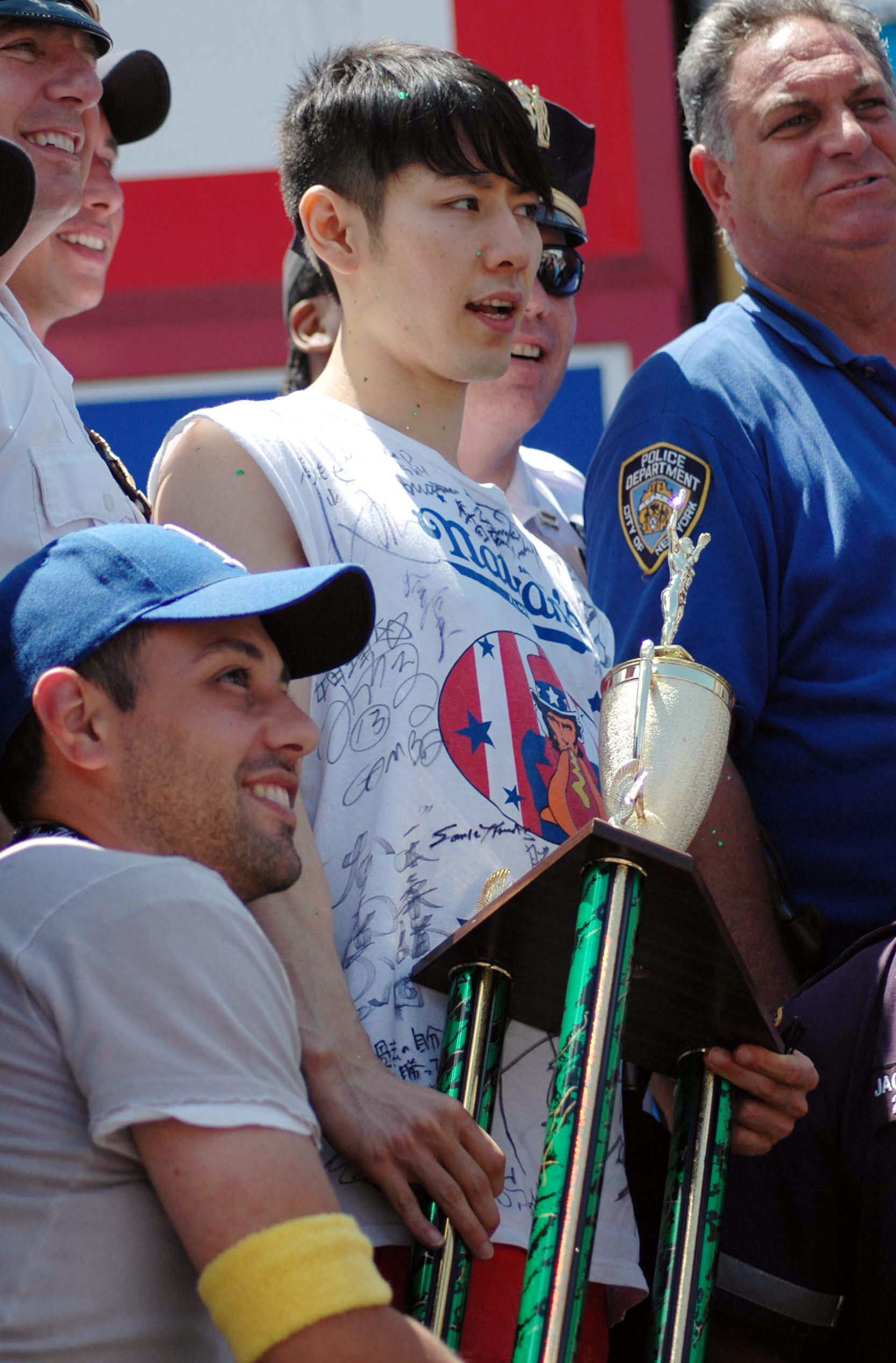 Takeru Kobayashi at the 2009 Nathan's Hot Dog Eating Contest. Posing with is 2nd place trophy. (original text)